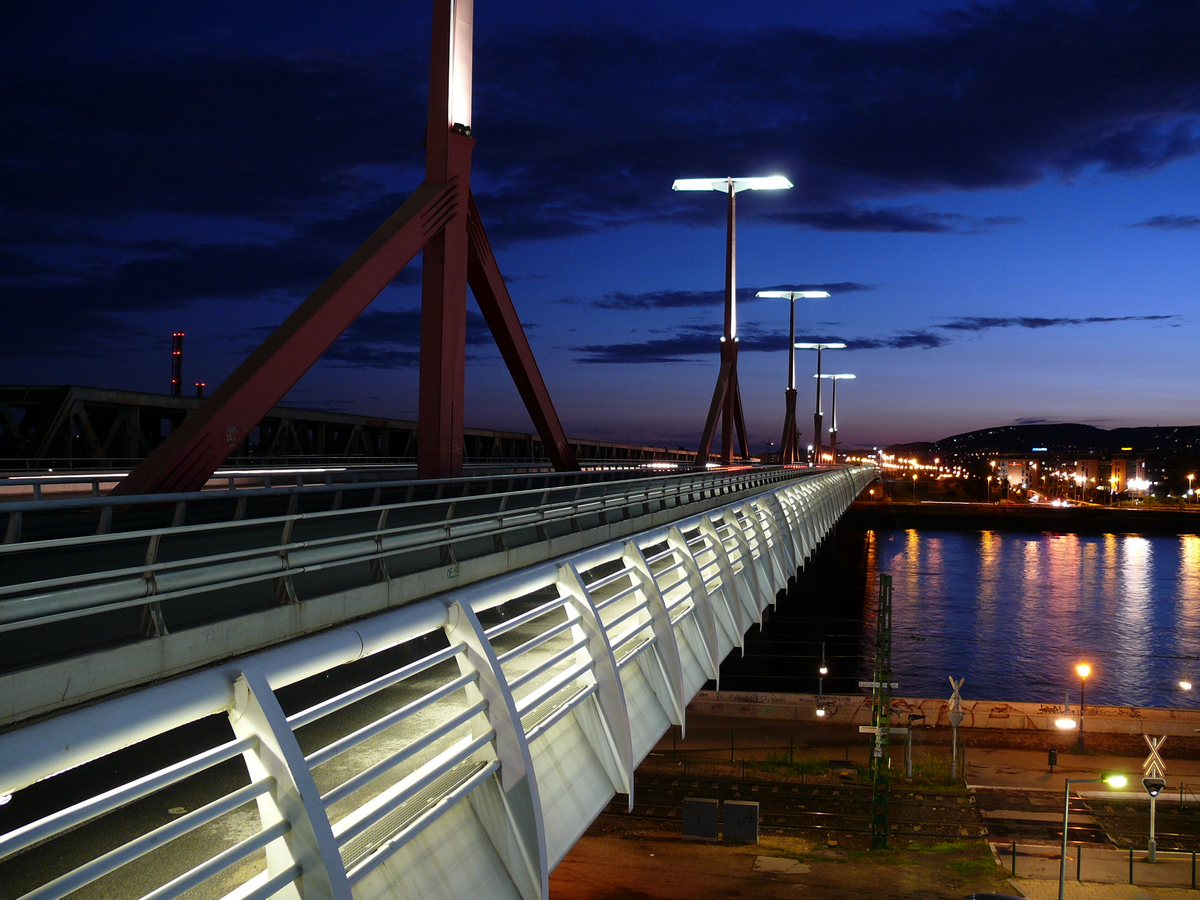 Lágymányosi Bridge at night